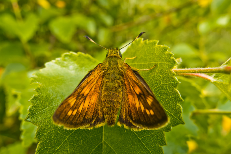 Ochlodes sylvanus in the Haaksbergerveen, The Netherlands.